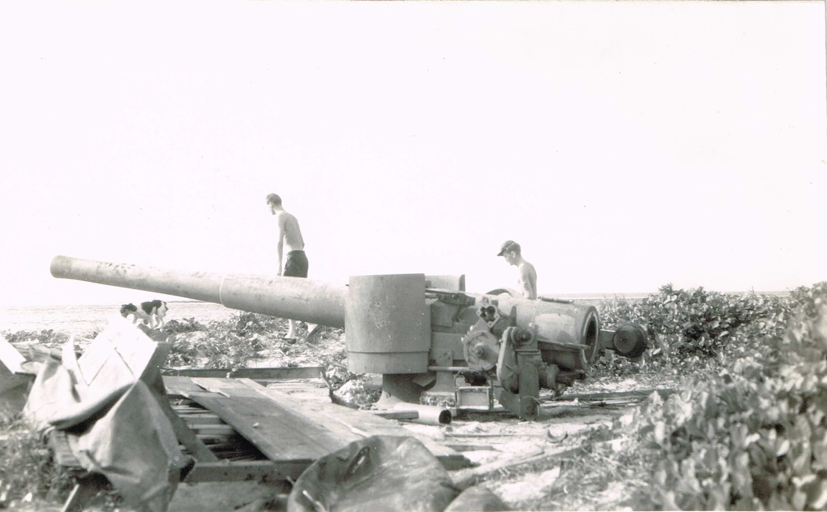 Japanese cannon at Saipan, after battle; photo taken by my grandfather, George A. Groeschl